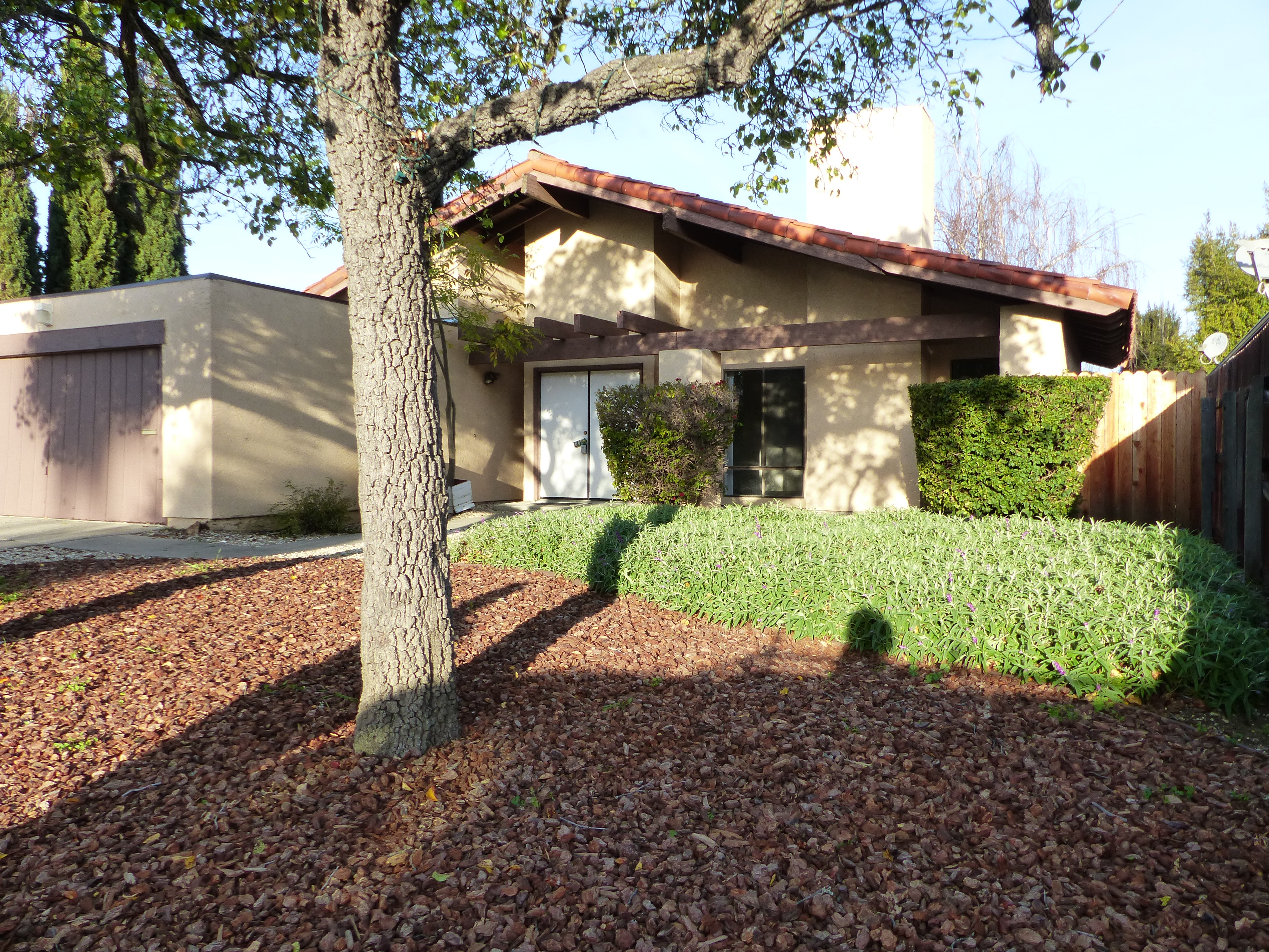 built in 1980